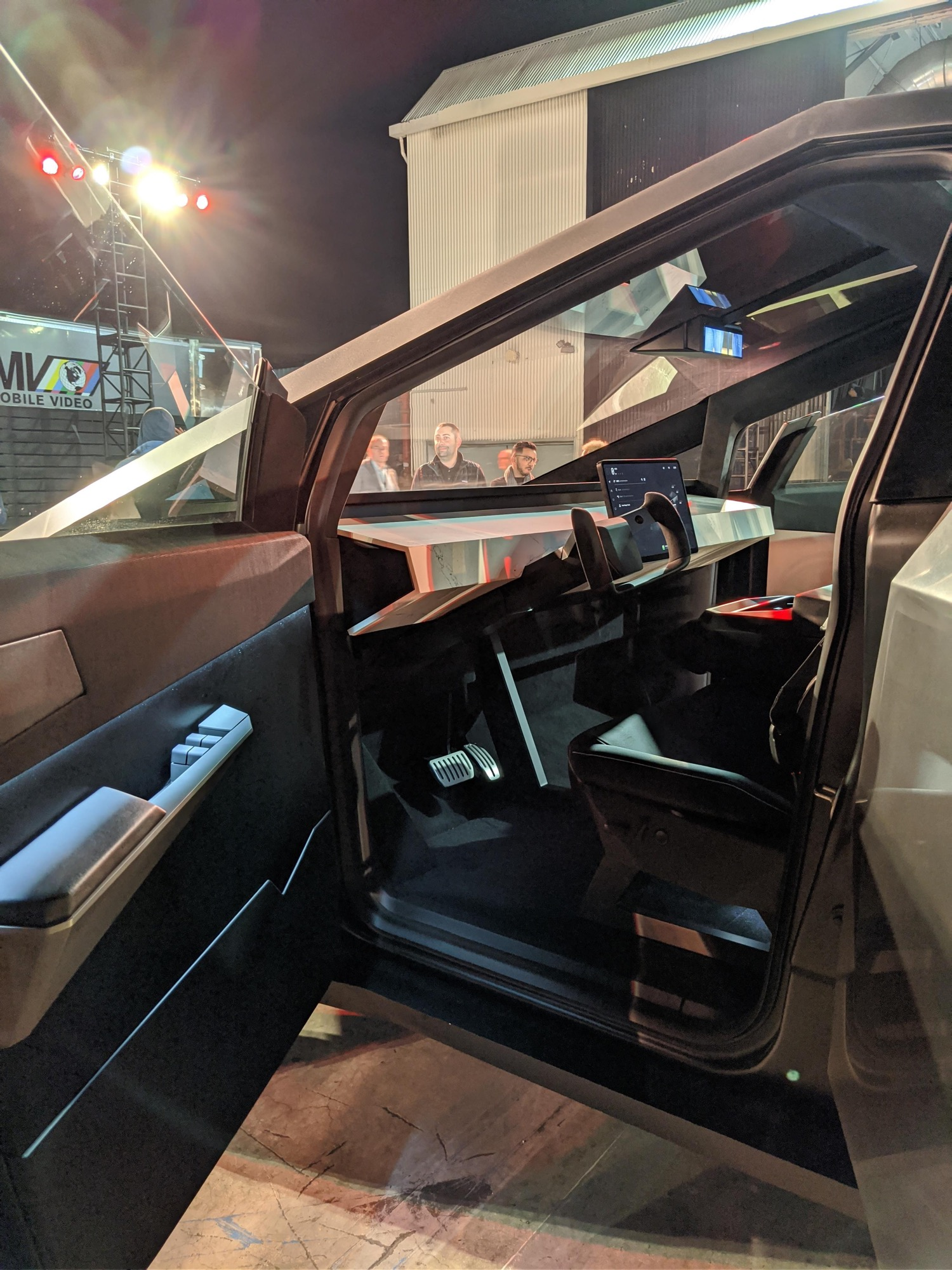 Tesla Cybertruck driving seat, showing pedals, open door, prototype steering wheel and marble-style dashboard